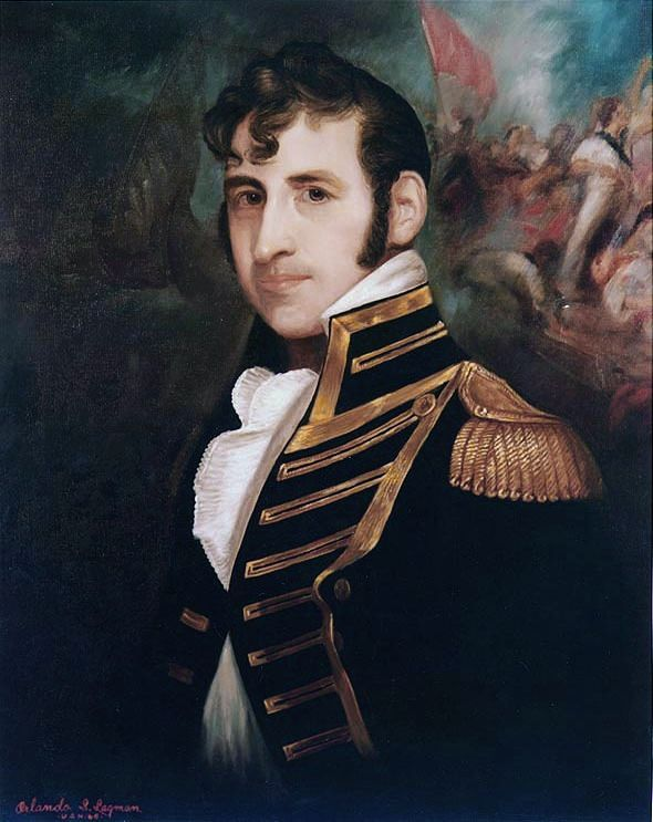 Portrait of Stephen Decatur